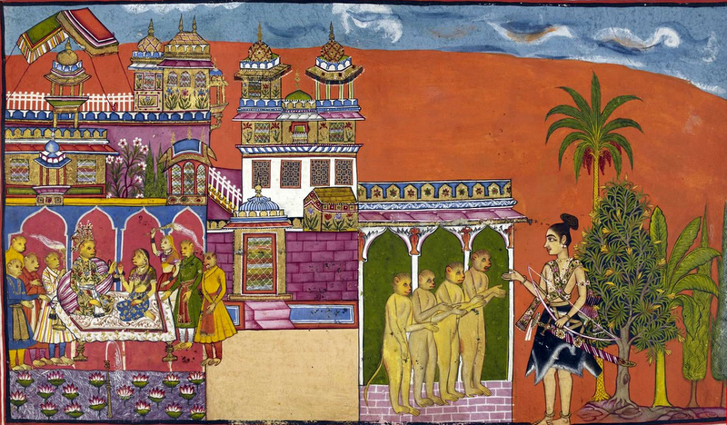 "At the gate of Kiskindha Laksmana is welcomed by Bali's son, Angada, and other monkeys, while inside the palace the crowned Sugriva, seated with Tara on a couch, is advised by his ministers. An arcade has been added to the side of the palace structure to indicate the gateway. Despite Tara's attempt to calm his passion, Laksmana then angrily reproaches Sugriva for neglecting his side of the bargain with Rama. "